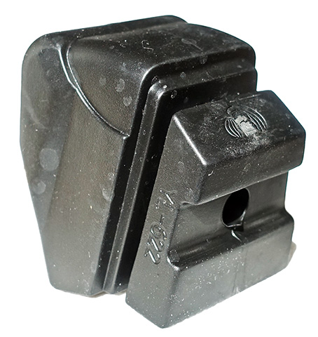 A brake pad for Firefly roller skate.